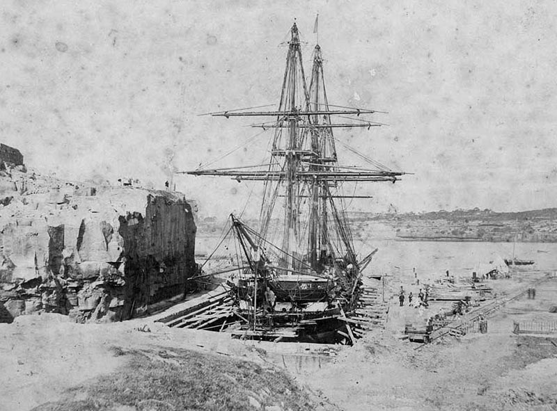 HMS Curacoa in the Fitzroy Dock in 1865